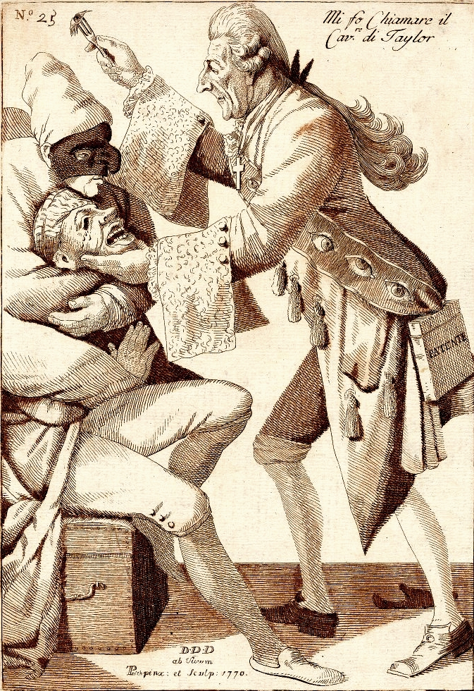 Caricature of the oculist John Taylor (1703-1770 or 1772).